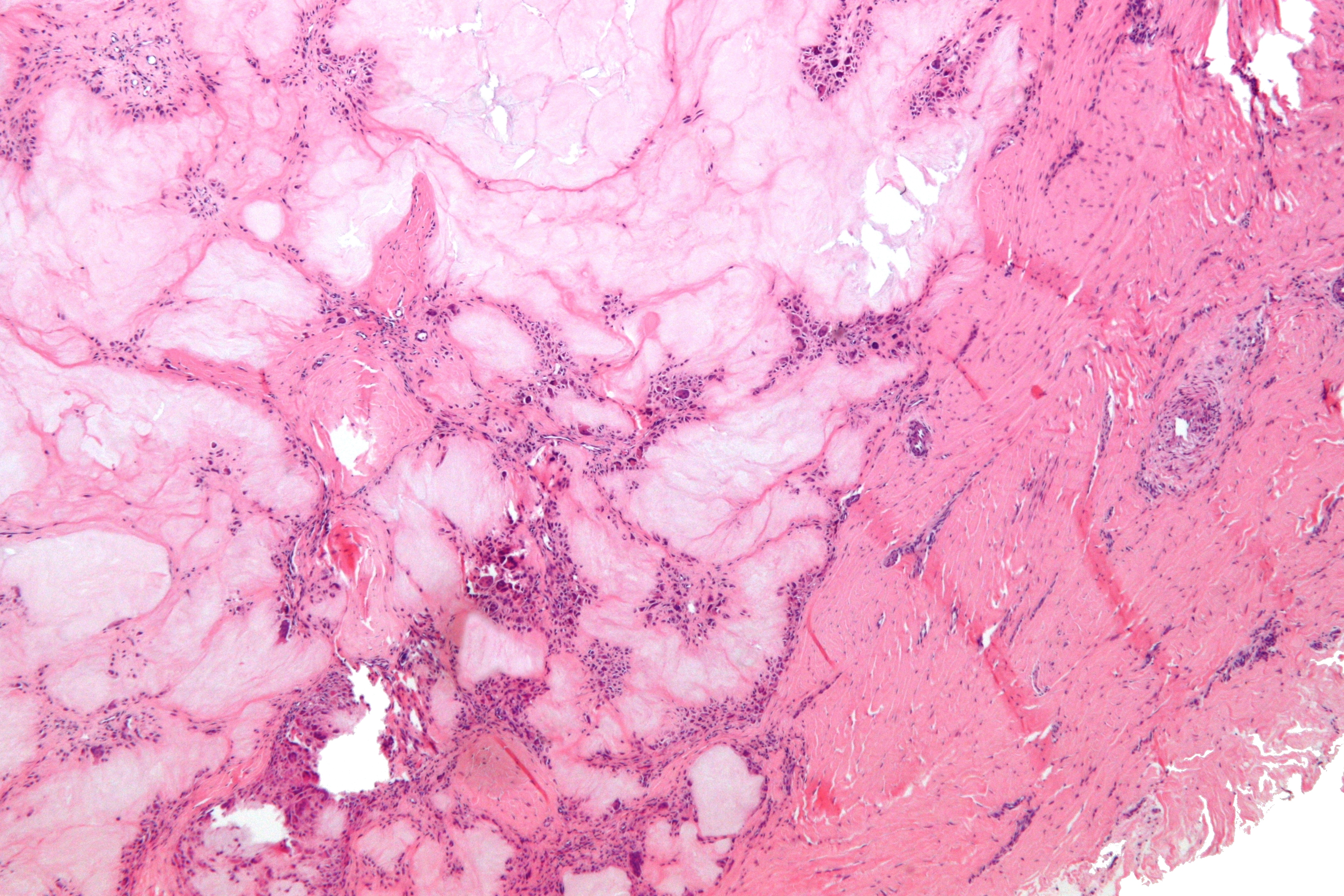 Low magnification micrograph of a gouty tophus. H&E stain. See also Gout. Tophus. Related images Low mag. Intermed. mag. High mag. Very high mag.